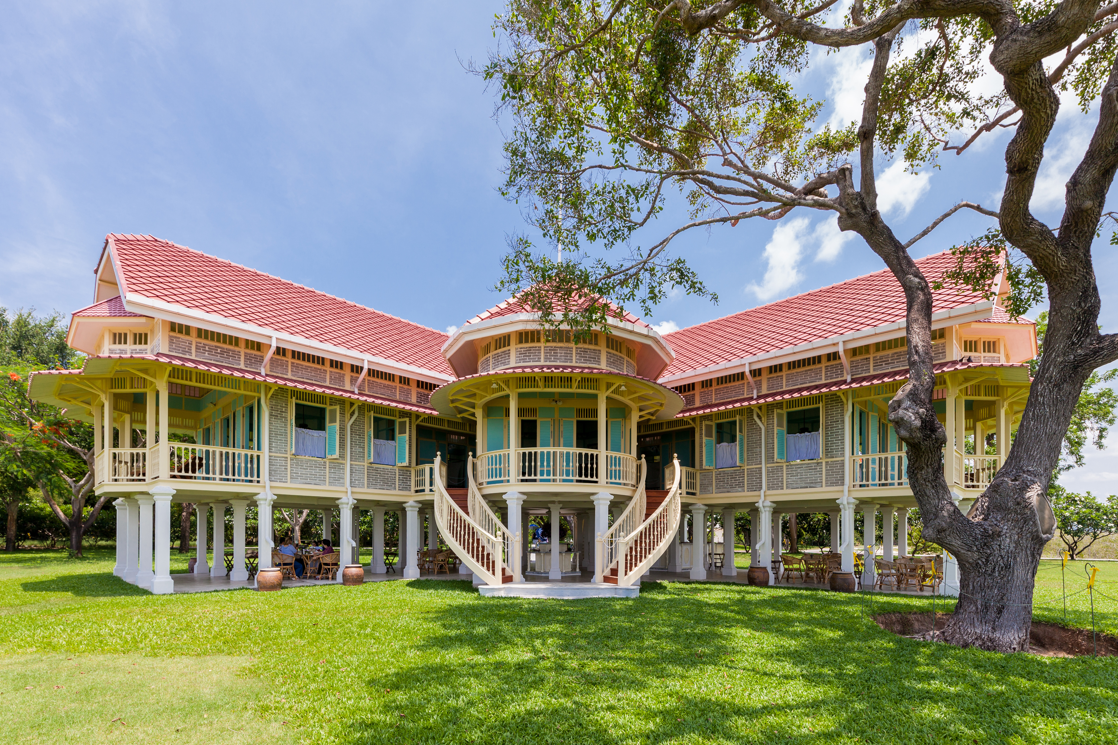 Mrigadayavan Tea Room at Mrigadayavan Palace (RTGS: phra ratchaniwet maruekkhathayawan, IPA: [pʰráʔ râːttɕaníwêːt márɯkkʰatʰaːjawān]; also phra ratchawang maruek thayawan) was the summer palace of King Vajiravudh (Rama VI) in Cha Am District, Phetchaburi Province, Thailand.